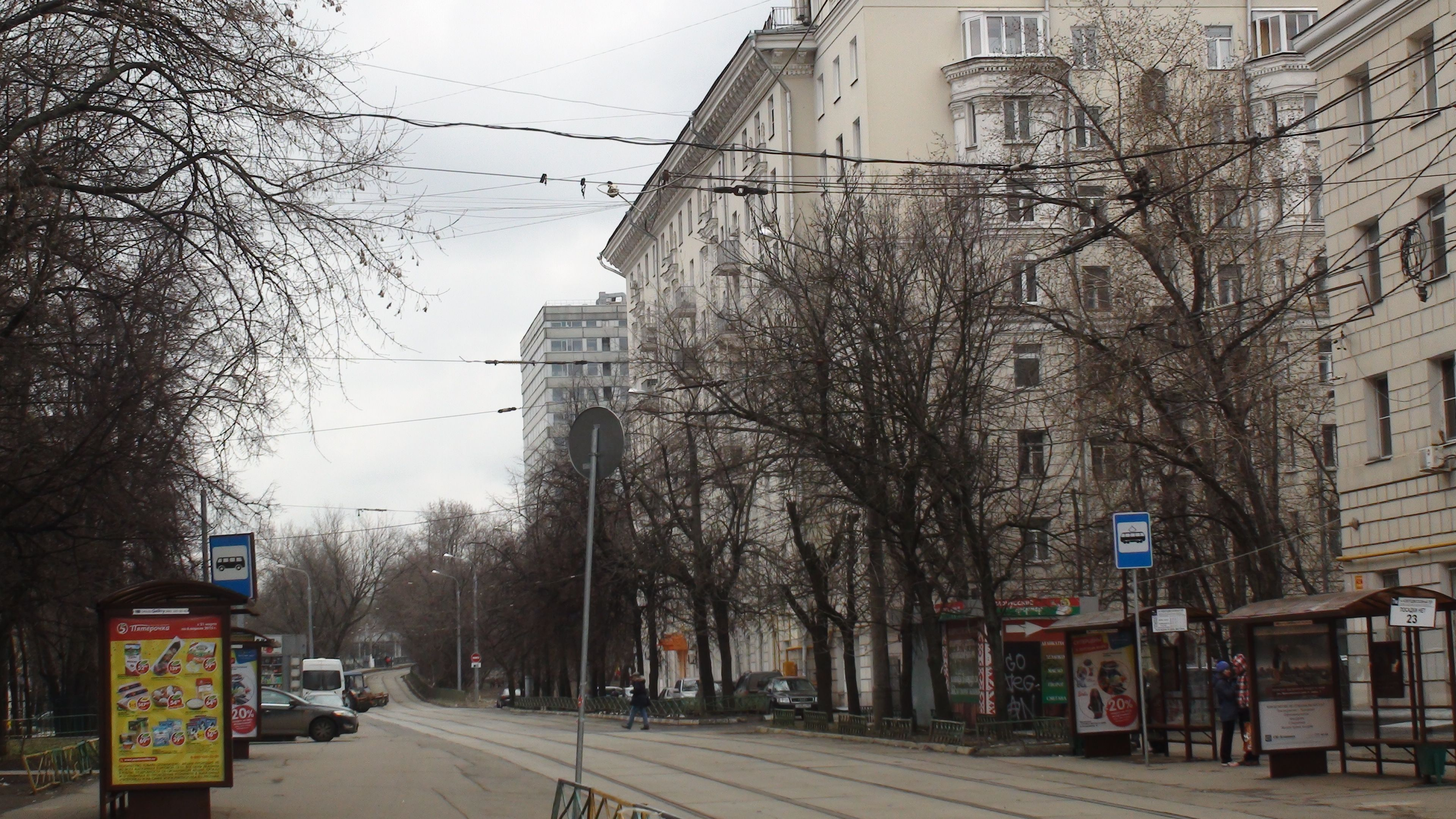 1 Novopodmoskobni Pereulok